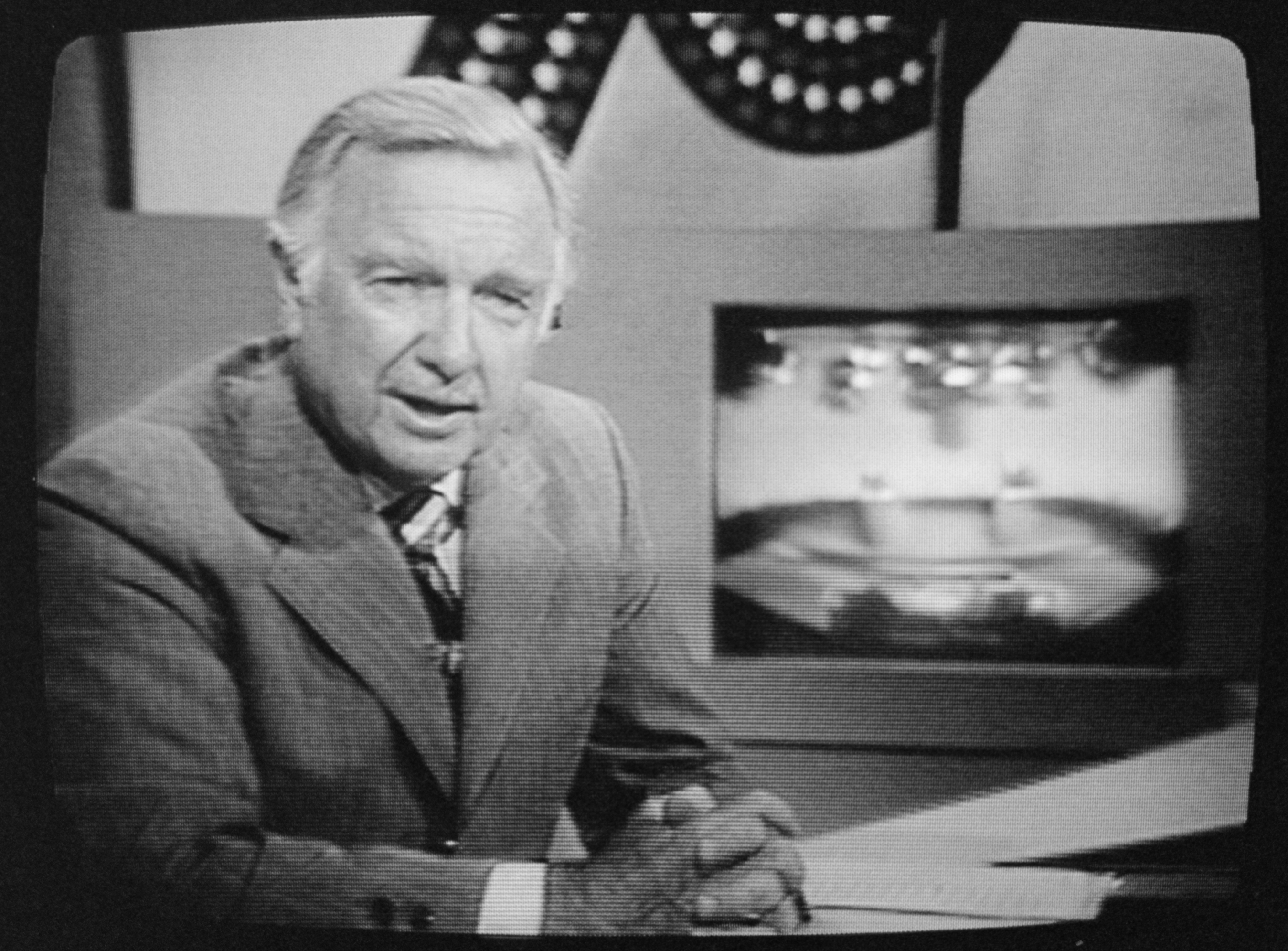 American broadcast journalist Walter Cronkite (b. 1916) on television during 1st presidential debate between Gerald Ford and Jimmy Carter, Philadelphia, Pennsylvania, on 23 September 1976.